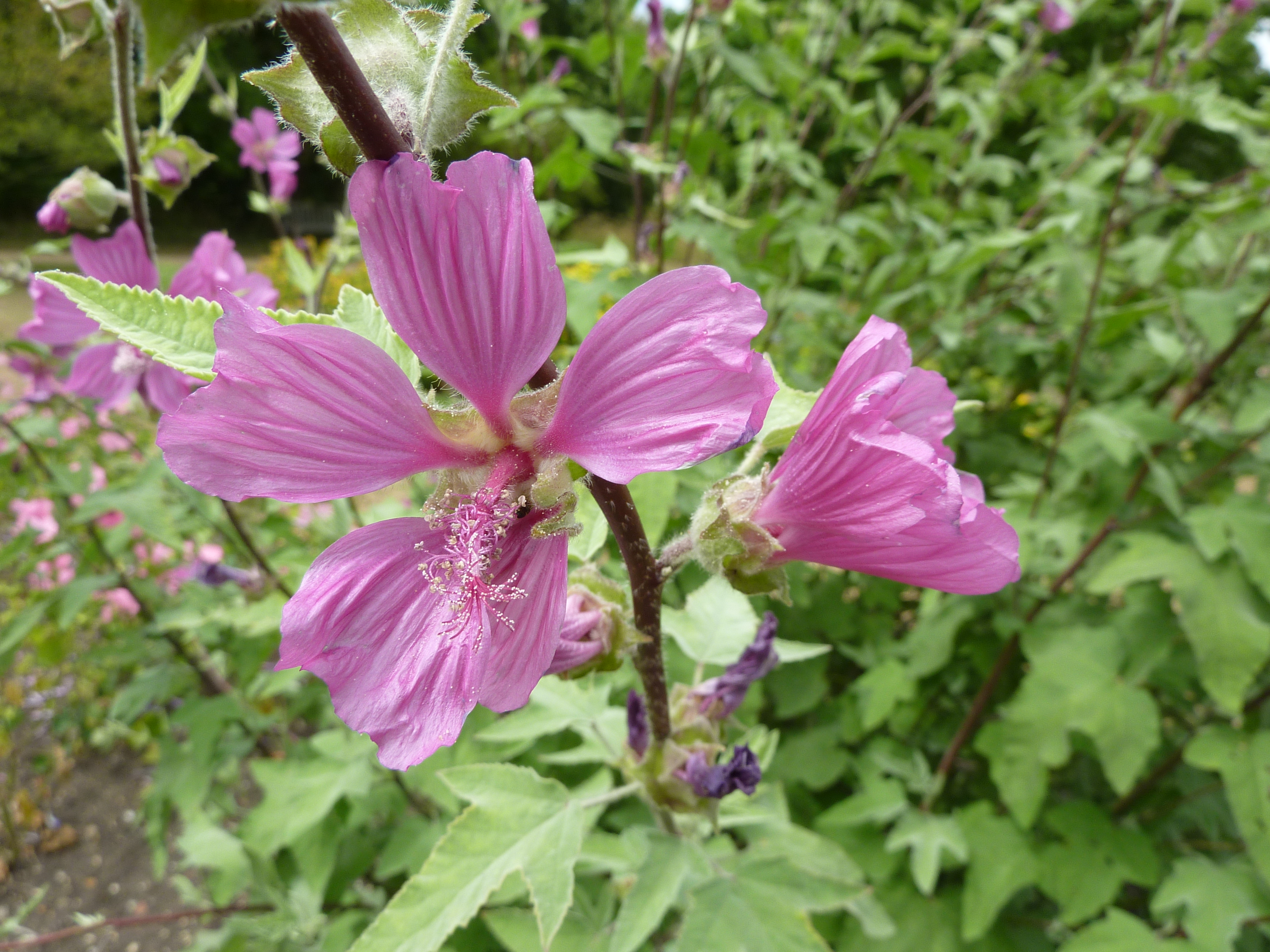 Taken in the Cambridge University Botanic Garden